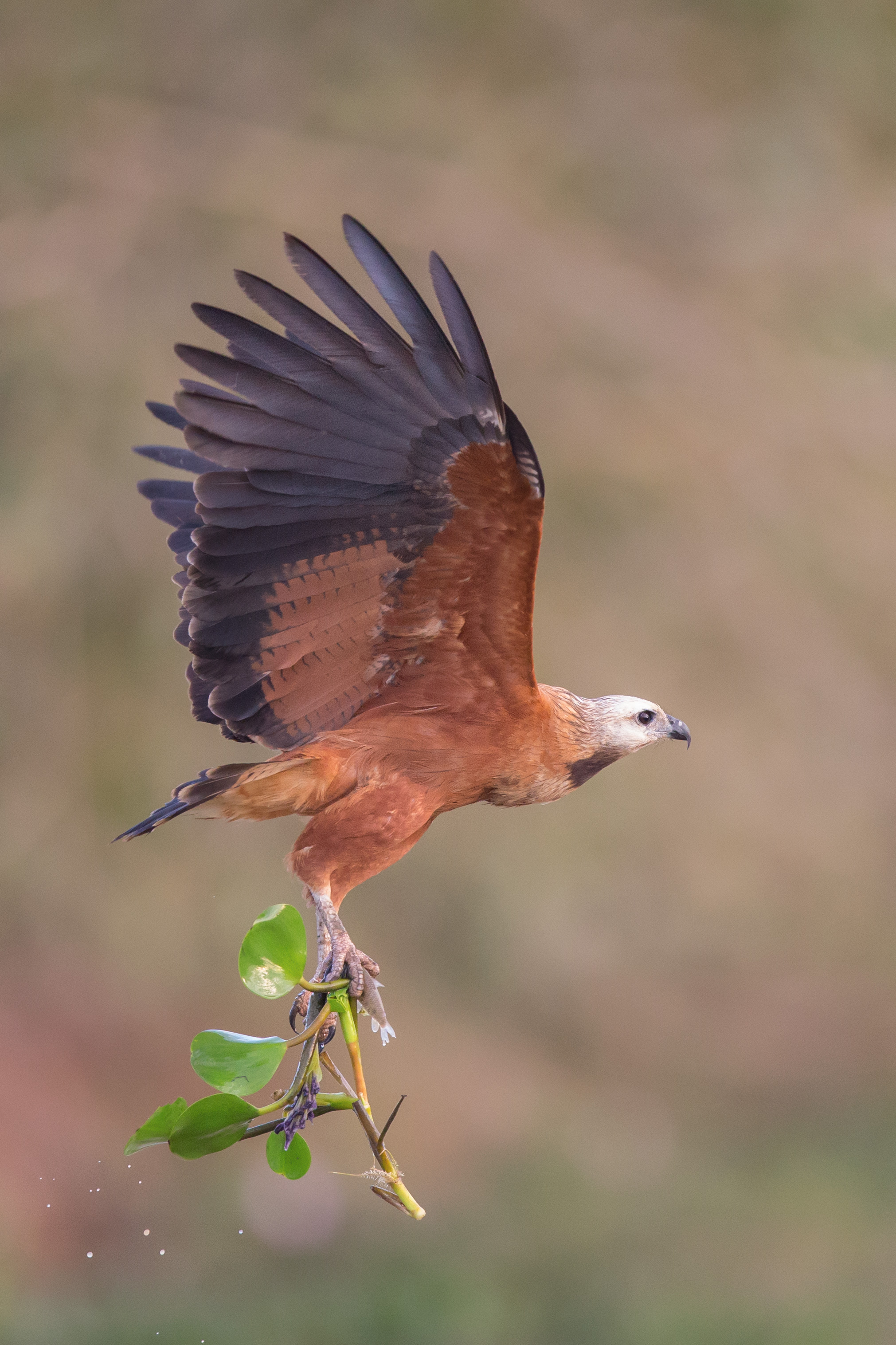 Black-collared Hawk